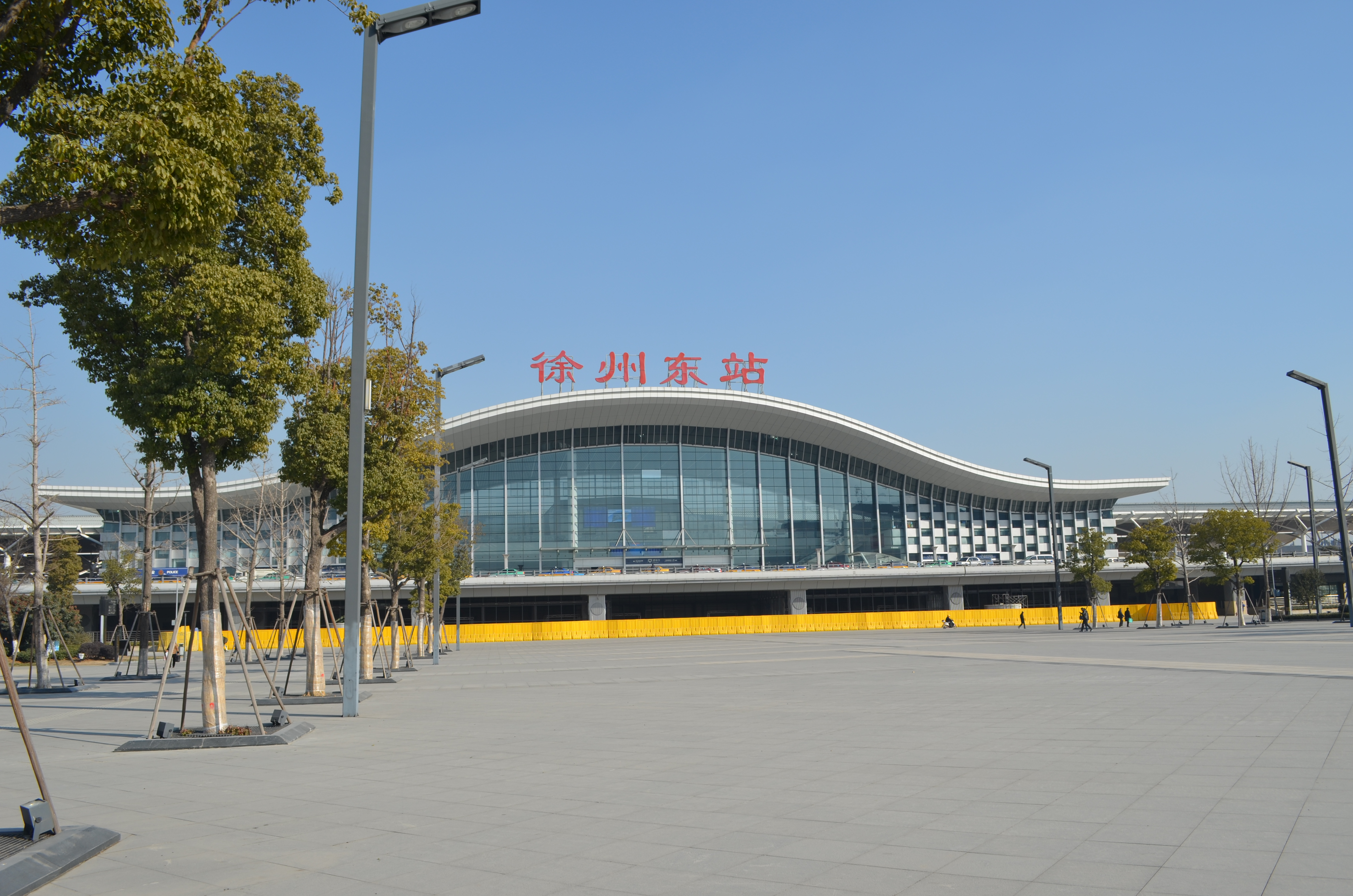 Xuzhou East High-speed Railway Station